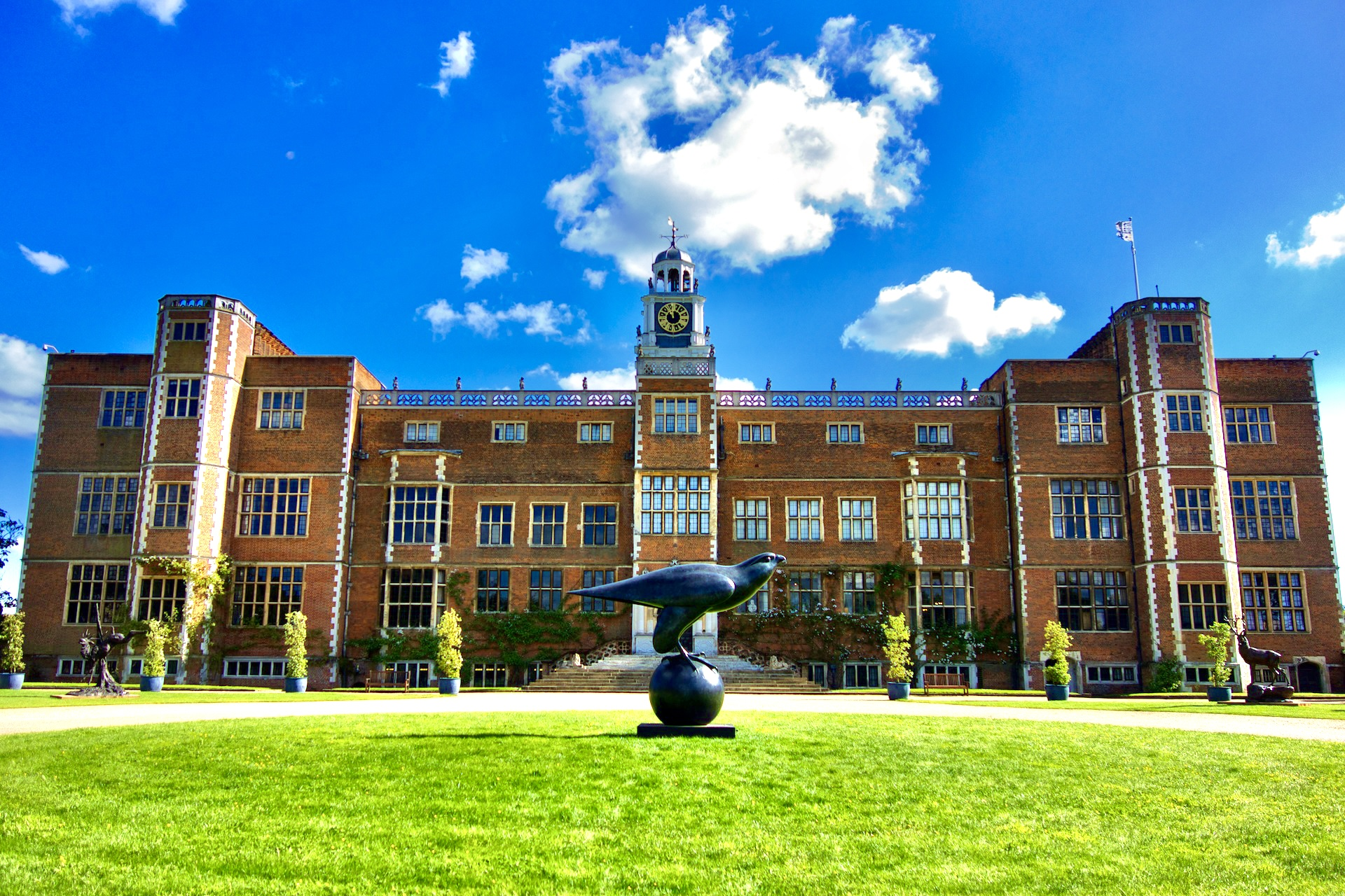 Hatfield House